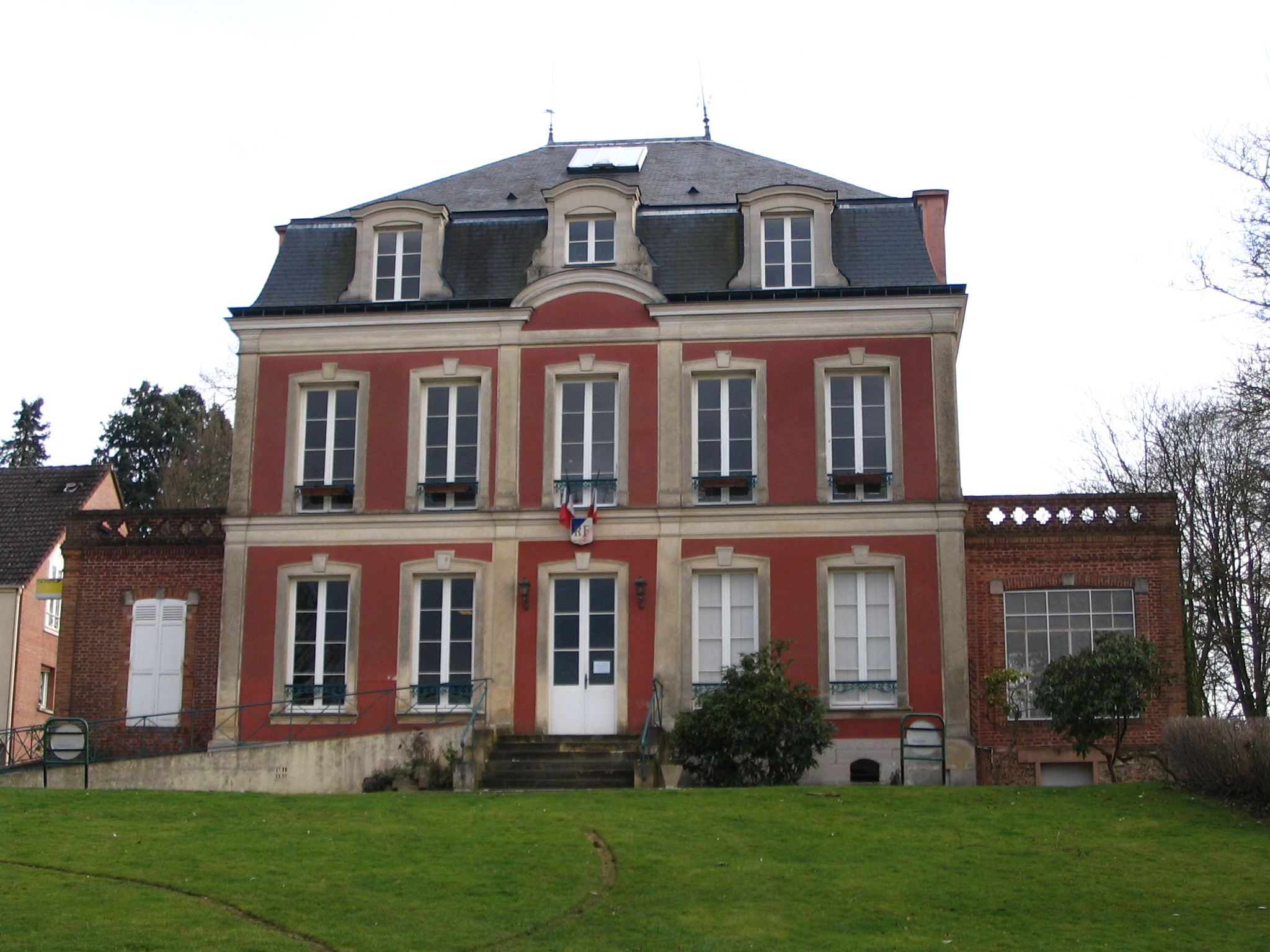 The town hall of Vémars, Val-d'Oise, France. The building used to be owned by François Mauriac's spouse.